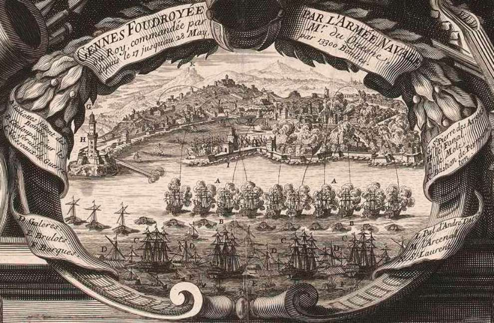 Bombardment of Genoa in 1684 by the French fleet.